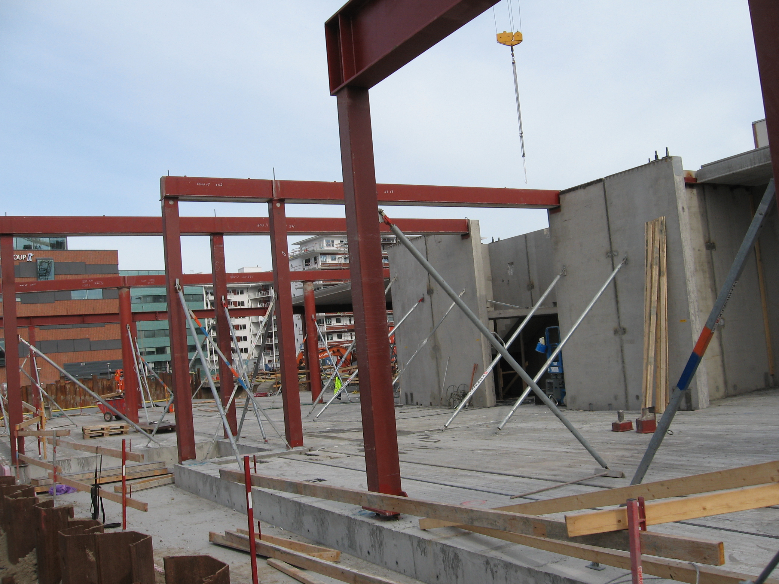 Framing Skrovet 5 Malmö